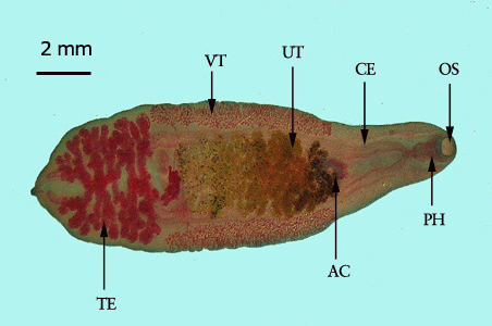 an adult Clonorchis sinensis